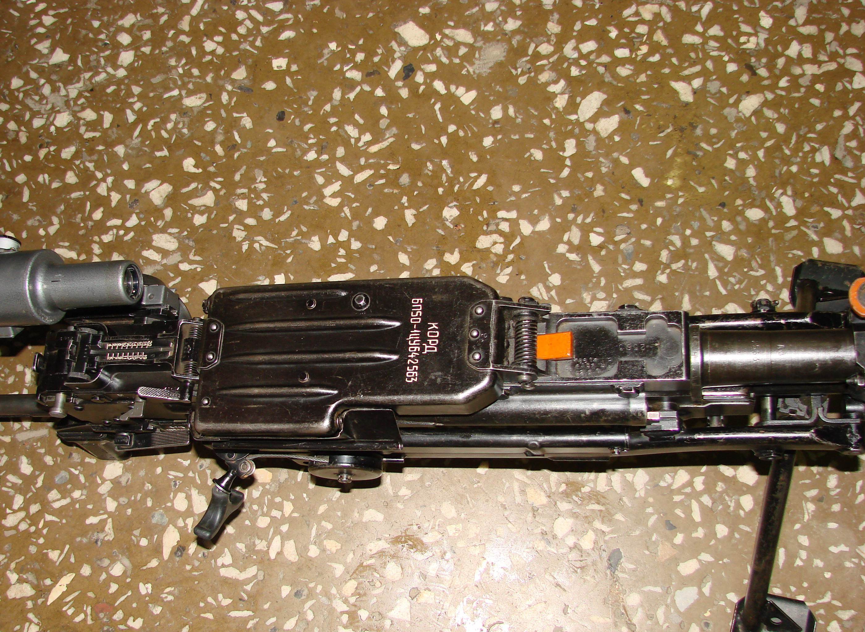 Kord machine gun (model 6P50)